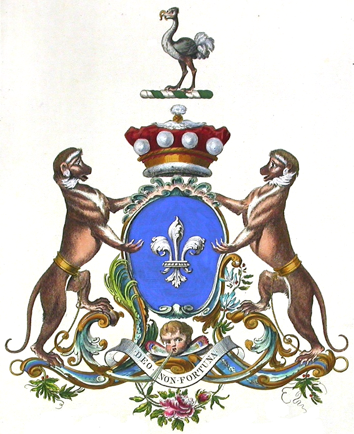 Description: Coat of arms of the Earls of Ducie Source: Segar's Baronagium Genealogicum, 1764